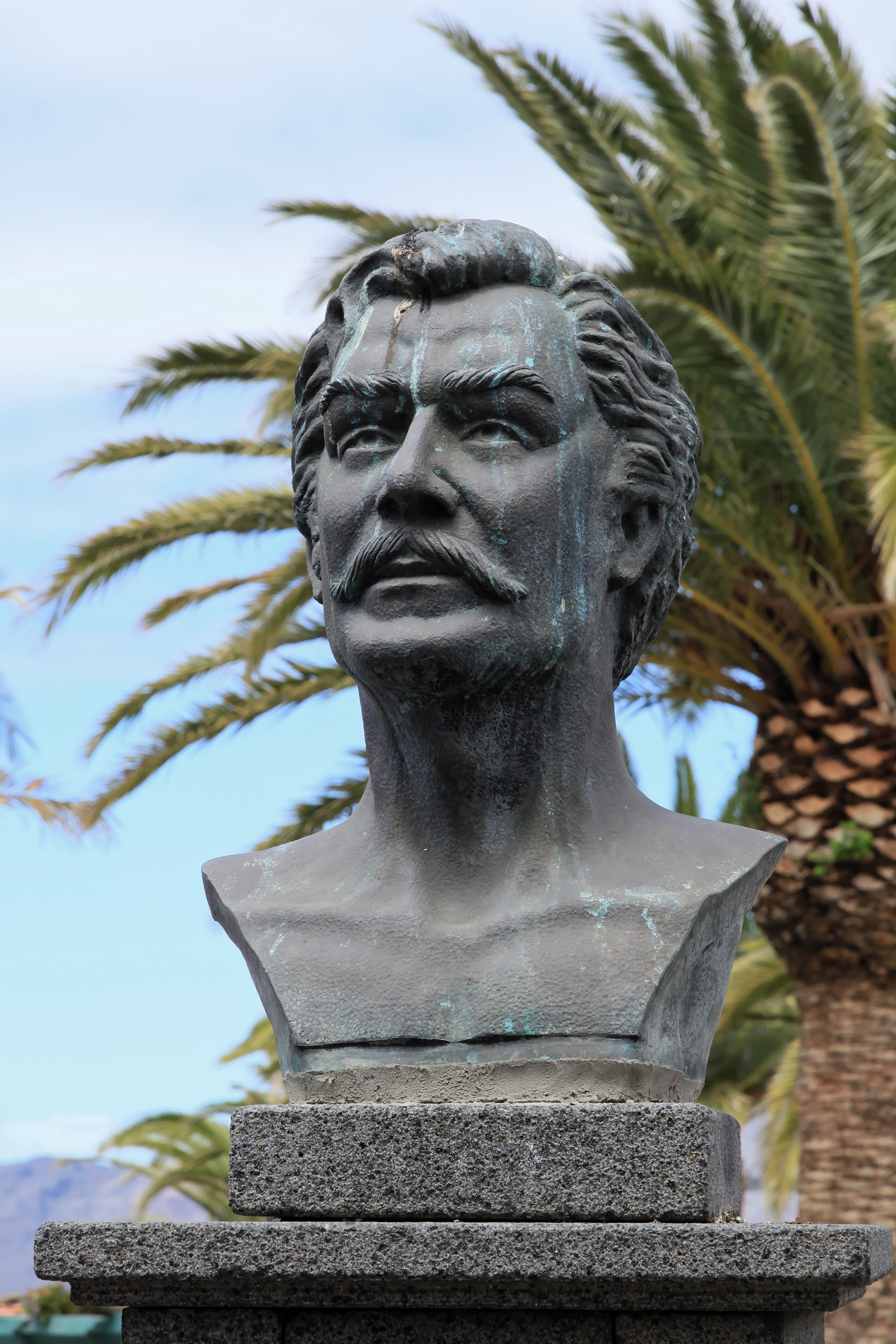 Bust of Manuel Taño de Las Paredes, Jardín El Paredón, Calle Paso de Abajo in El Paso, La Palma, Canary Island, Spain.